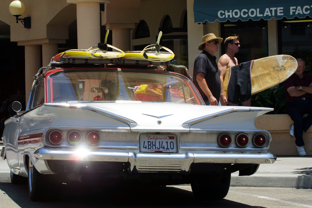 An impression of Huntington Beach that I felt.